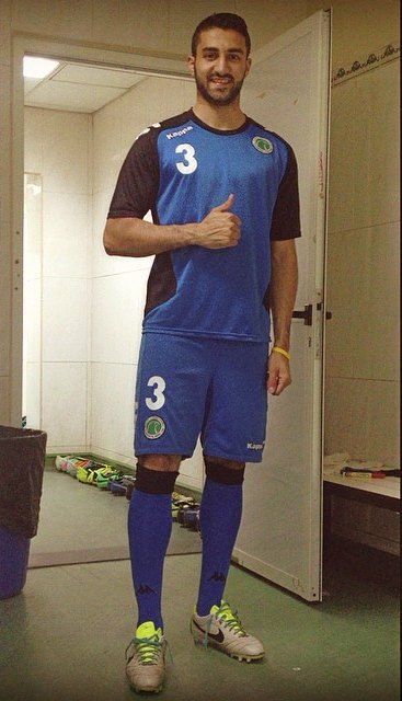 Shabab